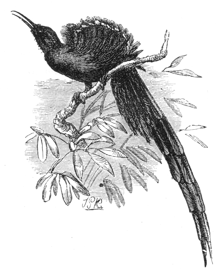 Caption reads "THE LONG-TAILED BIRD OF PARADISE (Epimachus magnus.)"